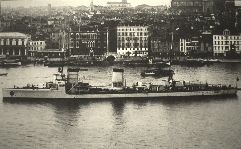 Italian scout cruiser Premuda (ex-V116 - Kaiserliche Marine)